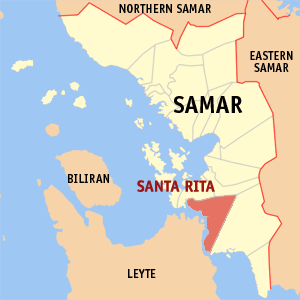 Map of Samar showing the location of Santa Rita